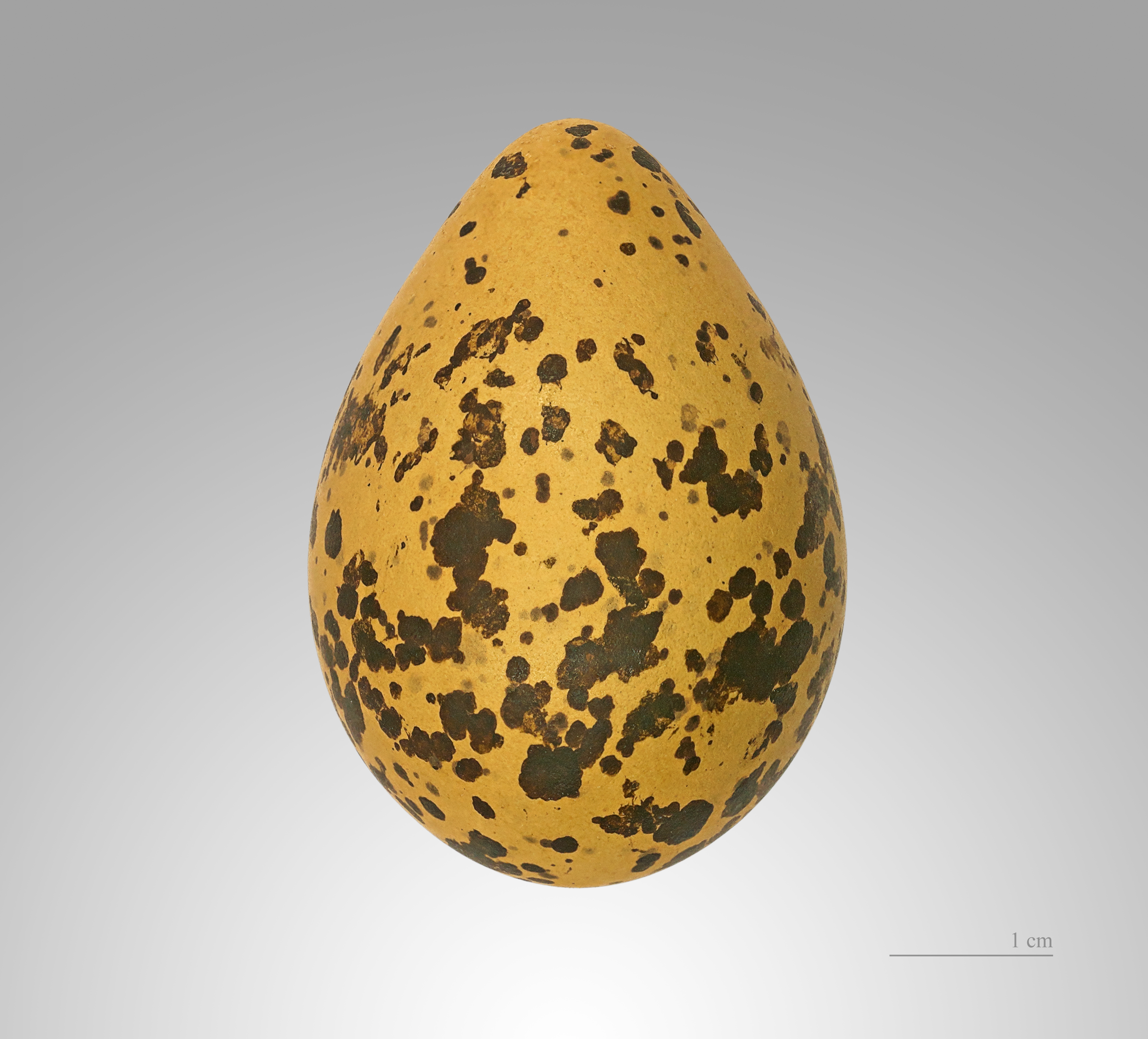 Egg of Black-winged Stilt. Collection of Jacques Perrin de Brichambaut.